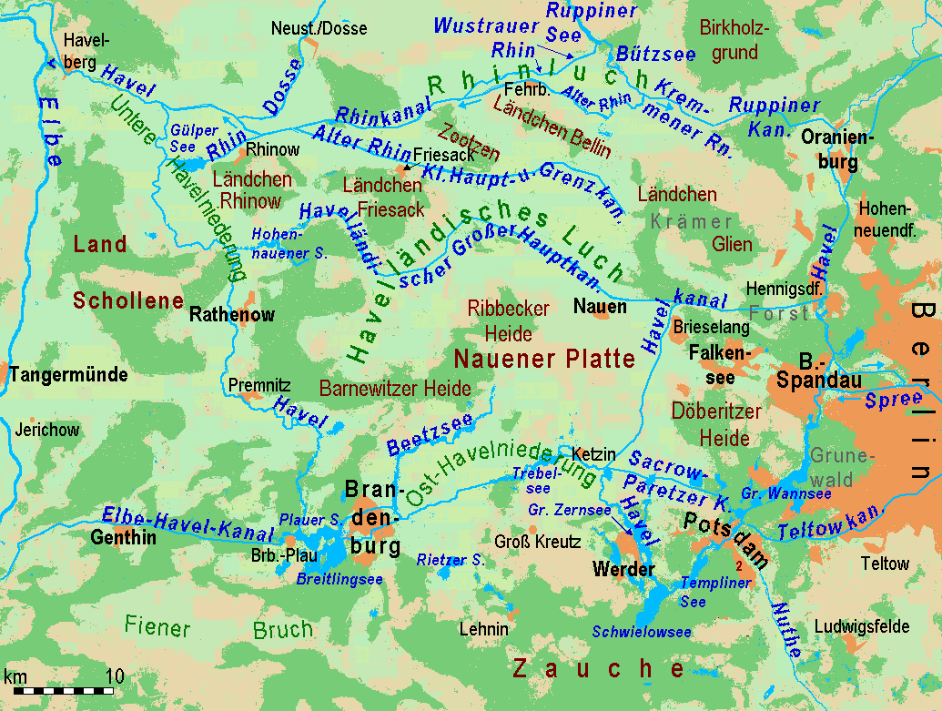 Partition and waterways of Havelland region west of Berlin